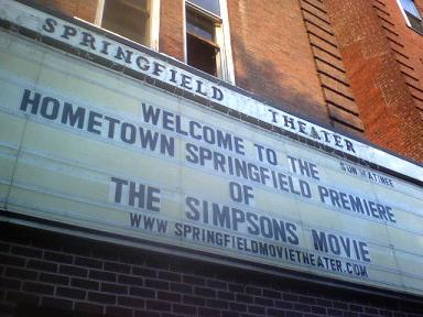 Photograph of the Springfield Theater in Springfield, Vermont at The Simpsons Movie premiere. Springfield Theater Sun Mantinee Welcome to the hometown Springfield premiere of The Simpsons Movie